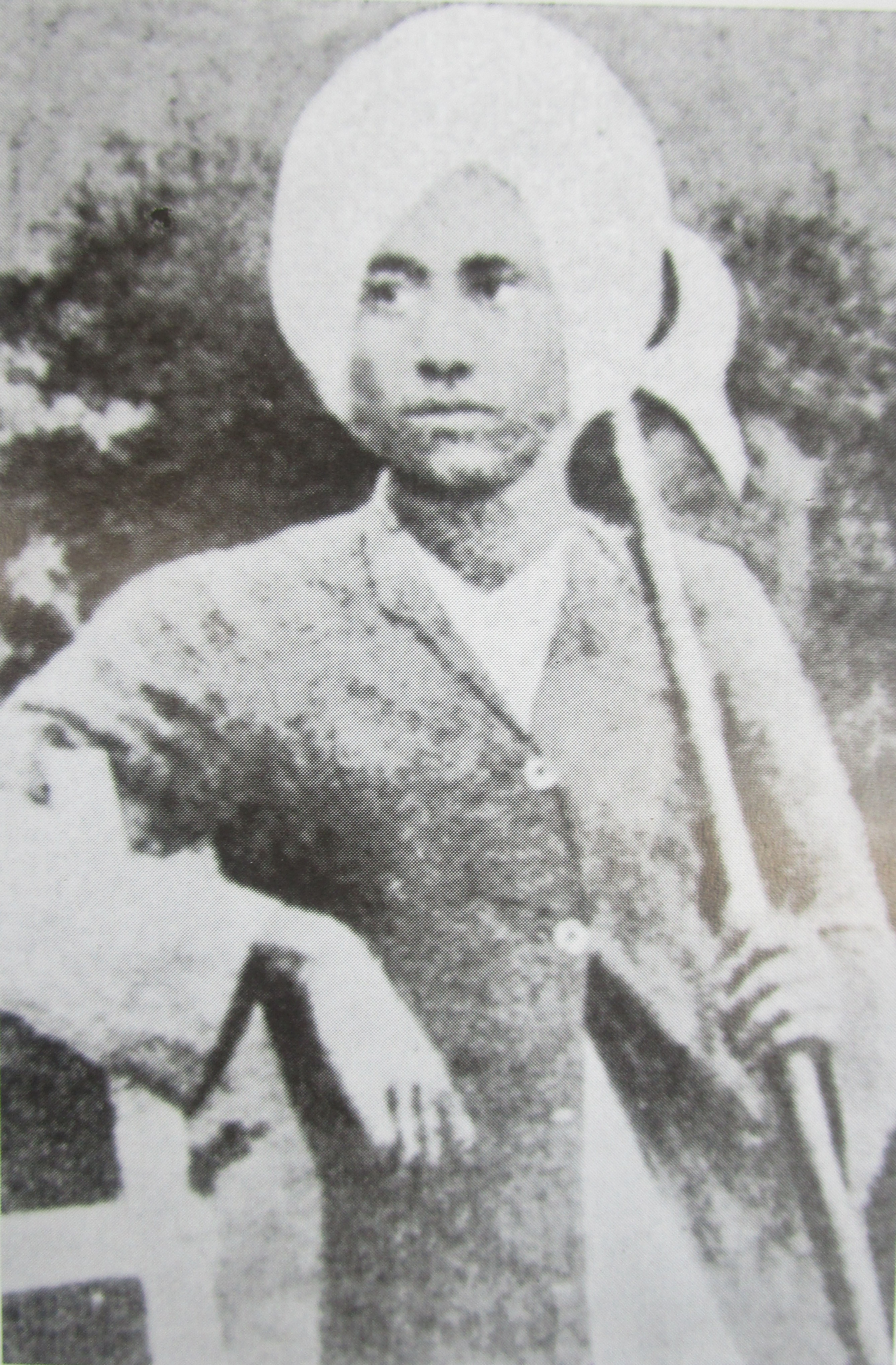 Khudiram Bose was traveling districts of India as an organizer.